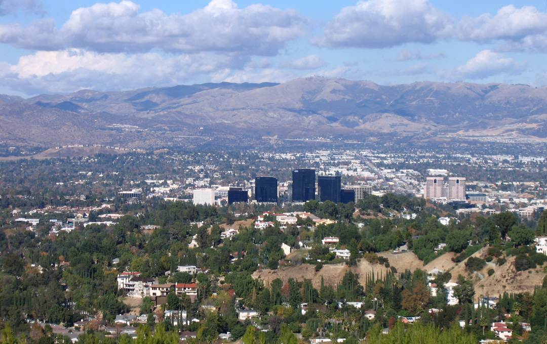 View of the San Fernando Valley, with Woodland Hills and Warner Center in the foreground - viewed from 'Top of Topanga' park area in the Santa Monica Mountains. The Santa Susana Mountains are visible in the background across the valley.